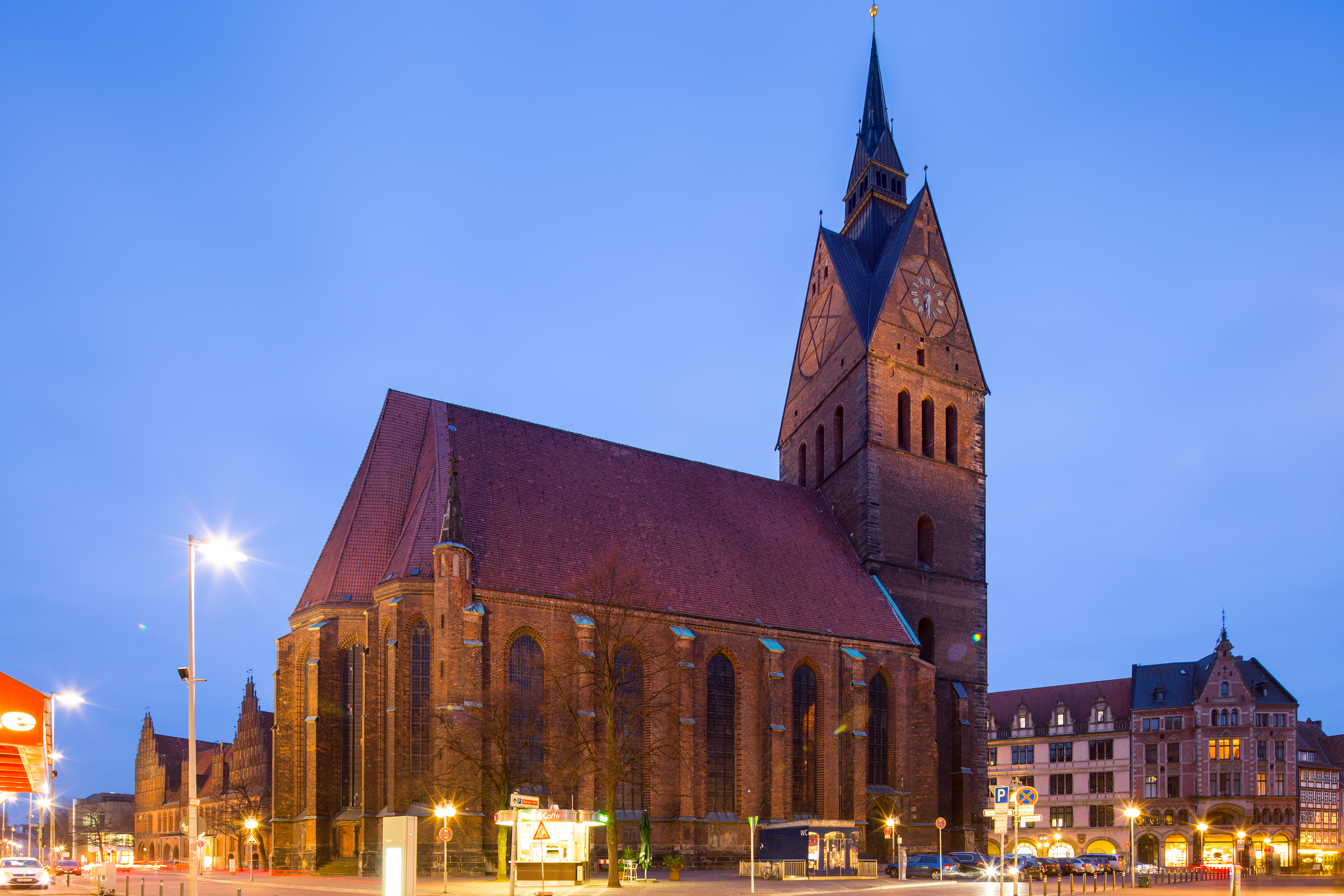 Church St. Georgii et Jacobi located in Mitte district of Hannover, Germany. The view from Schmiedestrasse towards south is pictured.